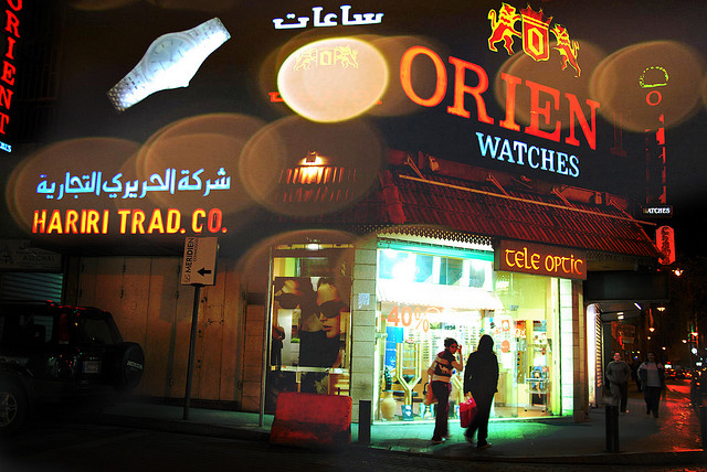 Orient Watches, Hamra Street, Beirut. Thanks to Karrie Amelia and Playing with brushes for the textures. View On Black